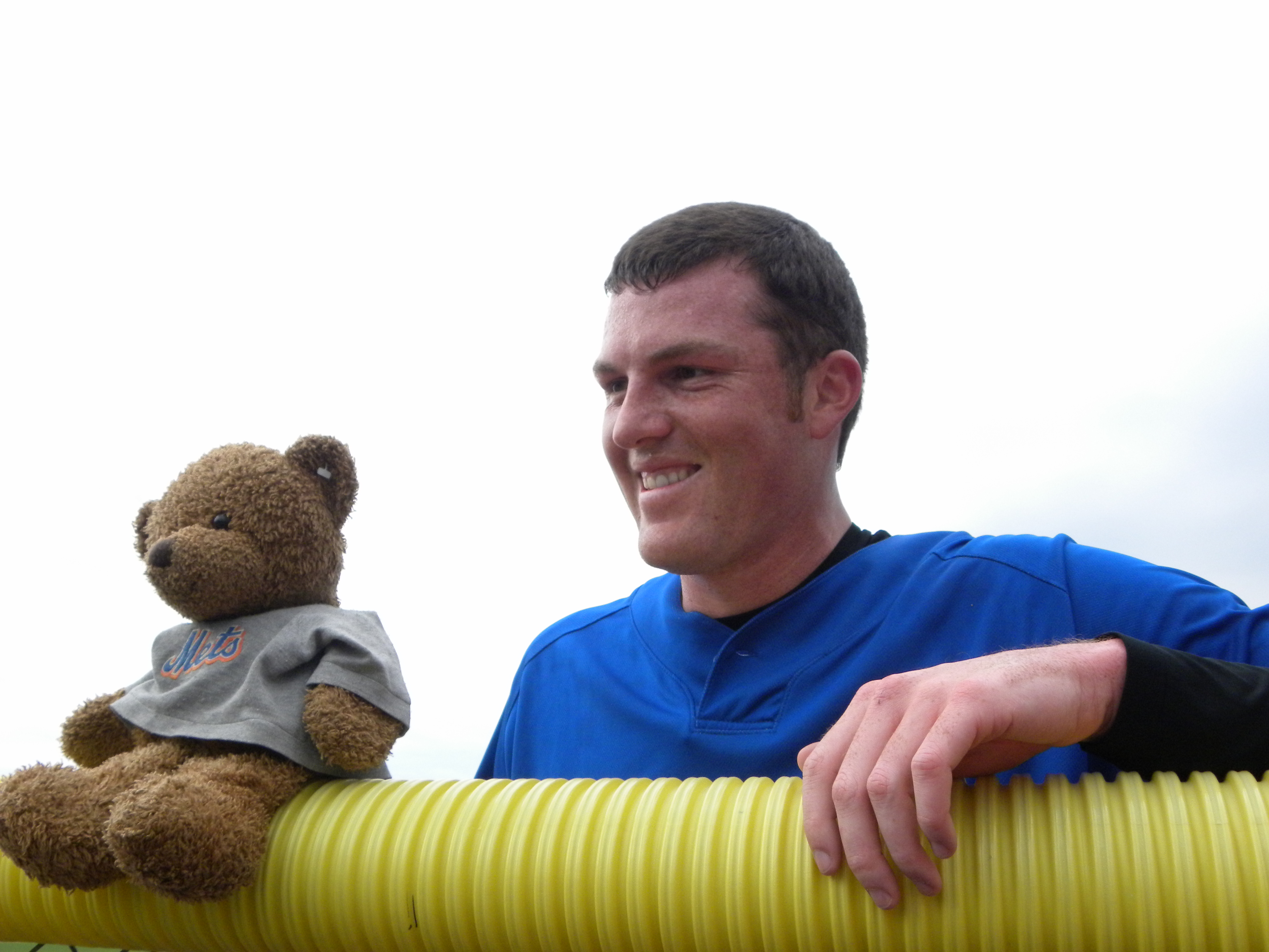 Eddie Kunz